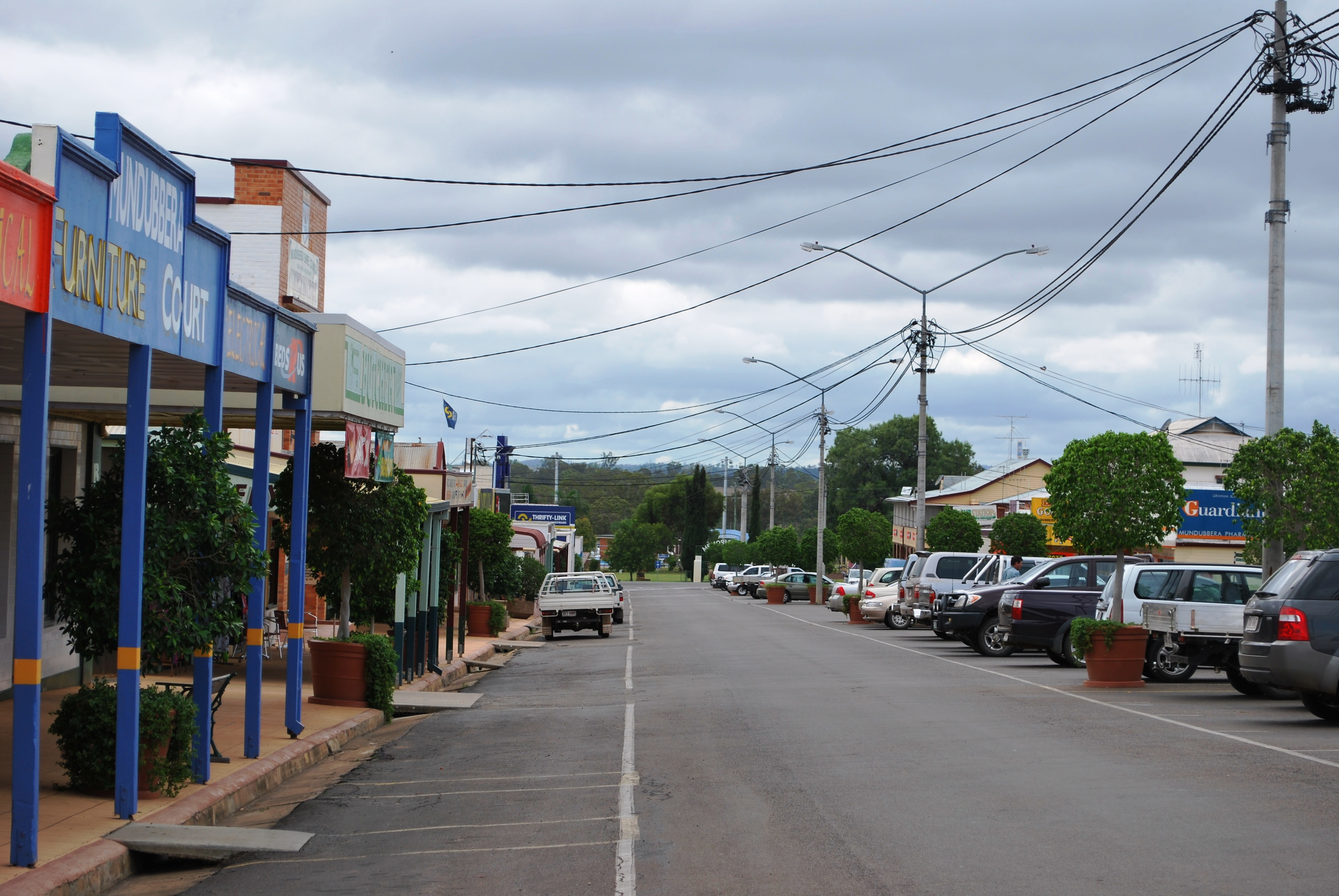 Lyons St in Mundubbera, Queensland, looking west